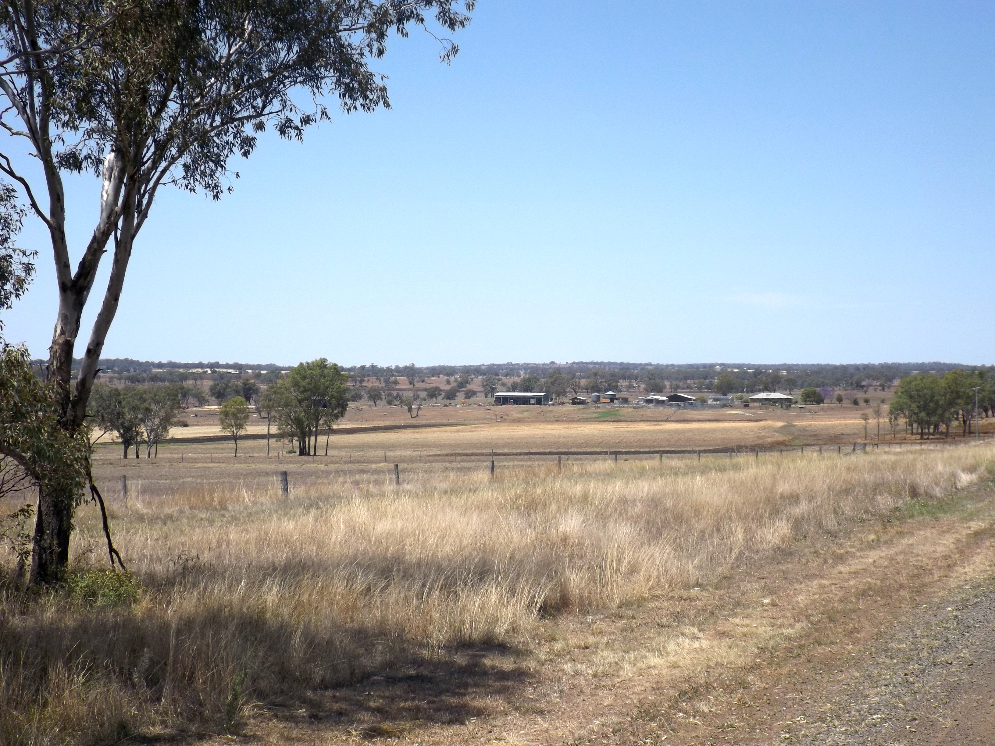 Photo of fields at Biddeston, Queensland, Australia.